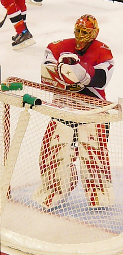 Ray Emery, at adjusting his equipment his equipment at Scotiabank Place